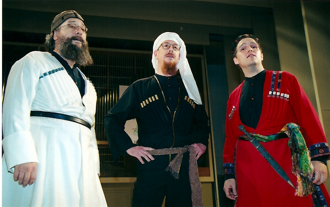 Trio Kavkasia (L-R: Alan Gasser, Stuart Gelzer, Carl Linich) photographed in concert at the 2002 Symposium on Traditional Polyphony at Tbilisi State Conservatoire, Georgia. Photo (c) Gia Chkhatarashvili, used with permission.